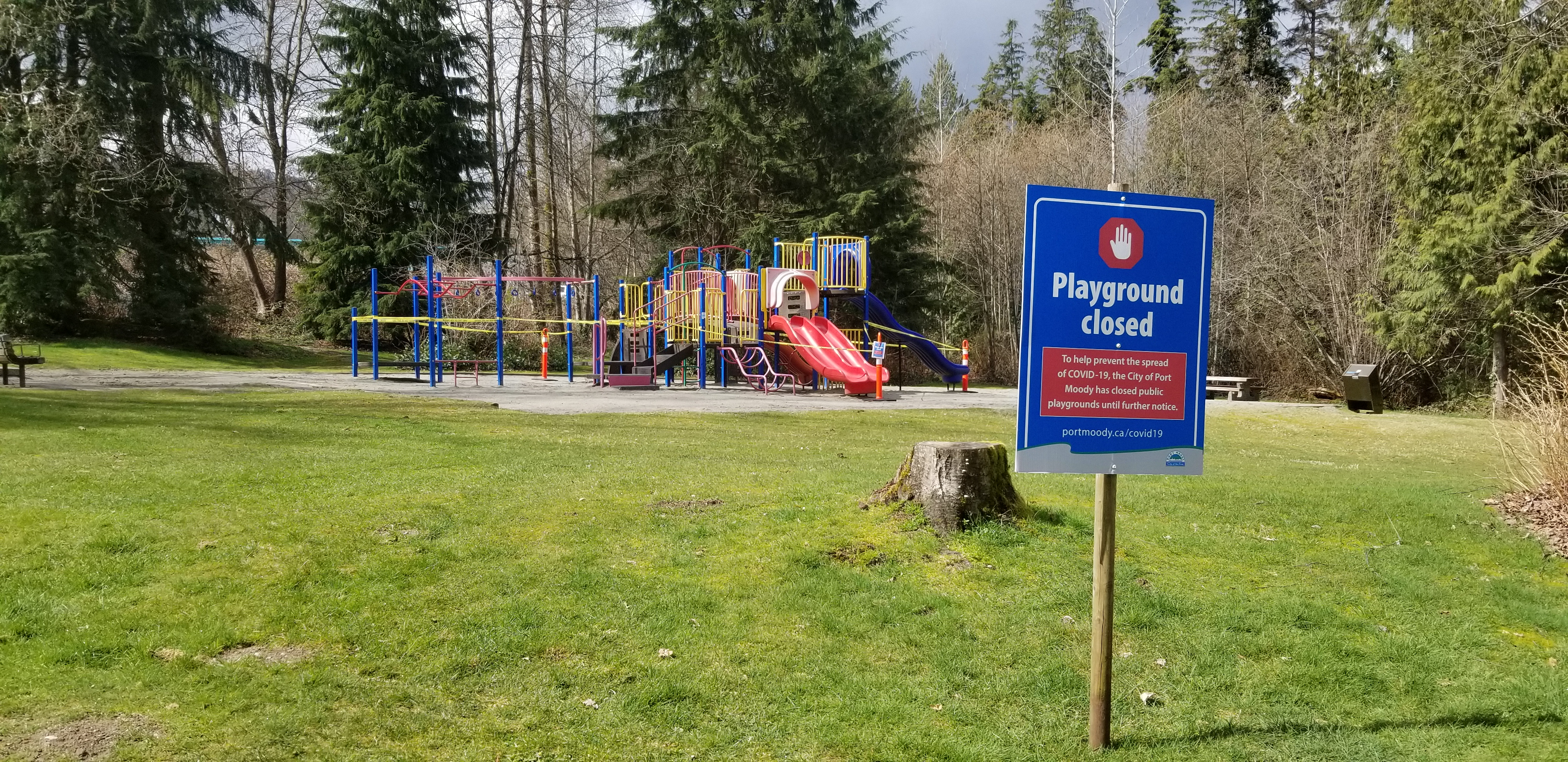 Text on the sign reads: Playground closed To help prevent the spread of COVID-19, the City of Port Moody has closed public playgrounds until further notice.